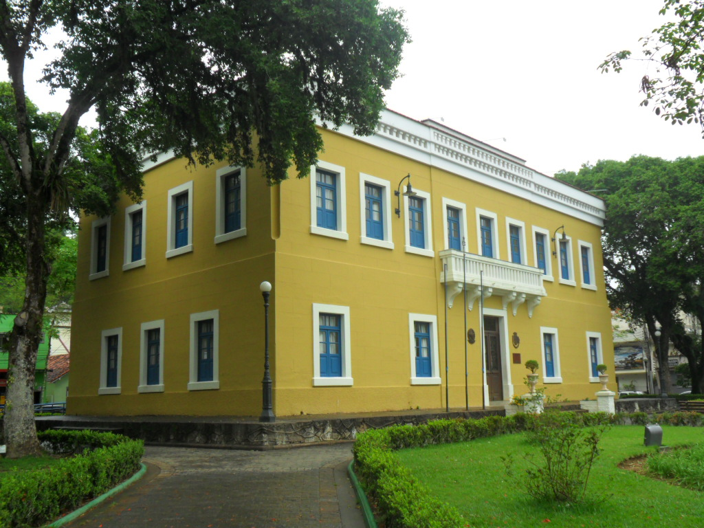 Pirai city hall, in Rio de Janeiro state, Brazil